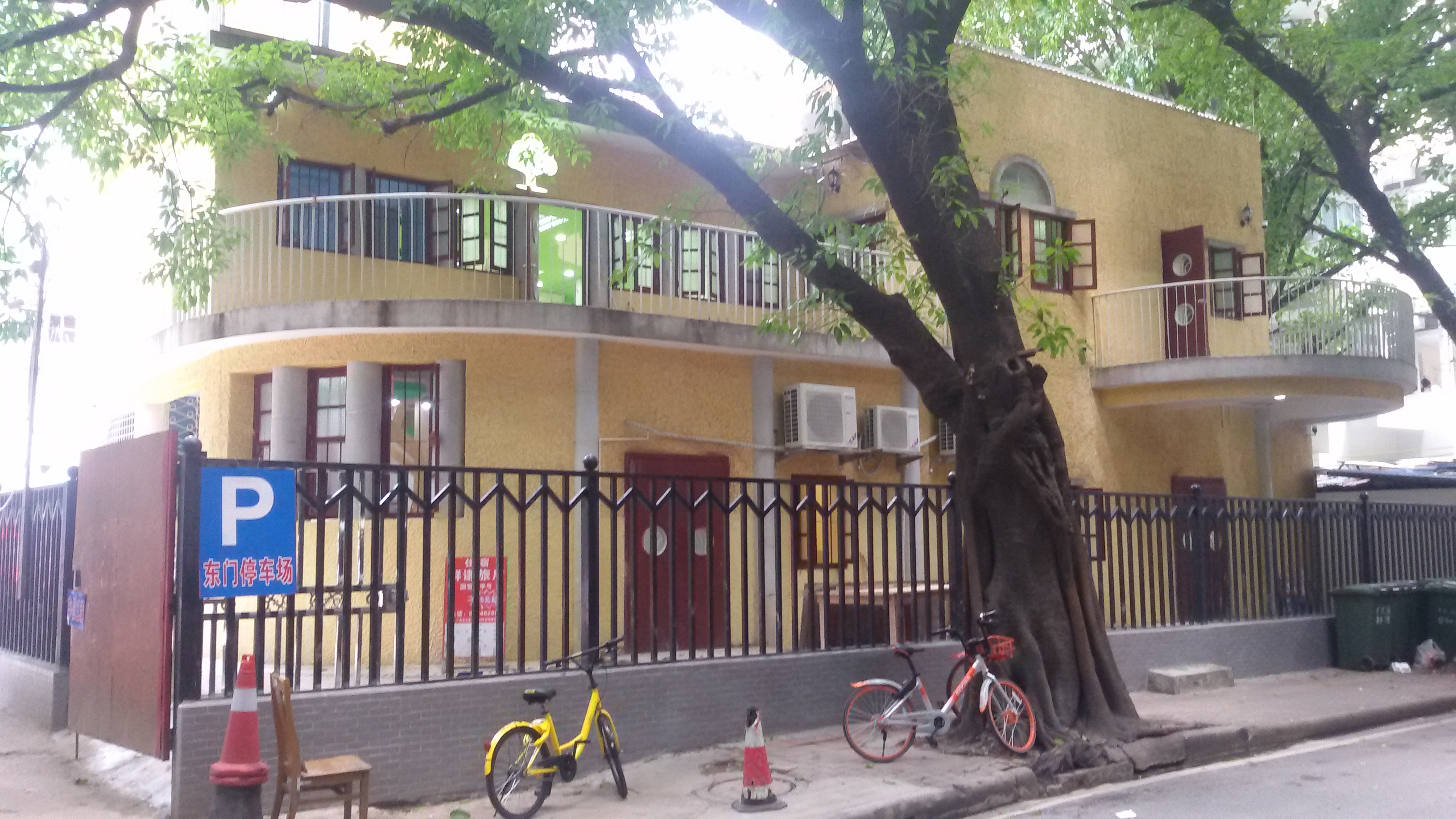 金陵臺（2017年6月26號）